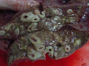 Hypertrophy of bile ducts in liver caused by F. hepatica (liver section; goat)